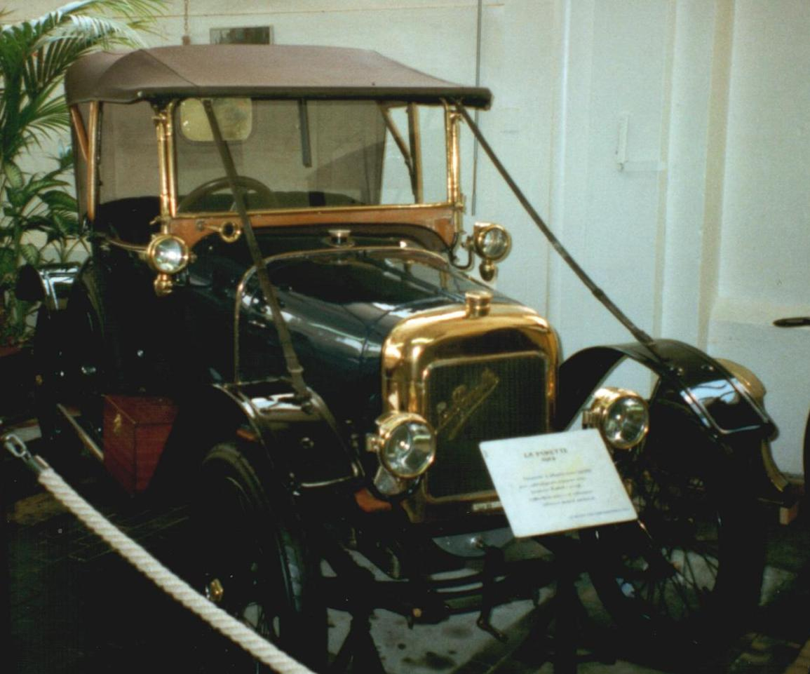 La Ponette 1912 (Country of origin: France)